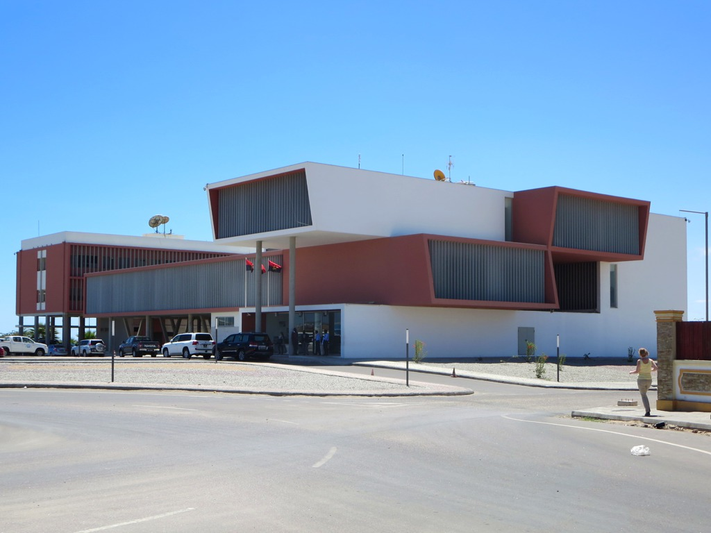 The new Governo Provincial do Namibe building in Namibe, Angola, houses the local administration.